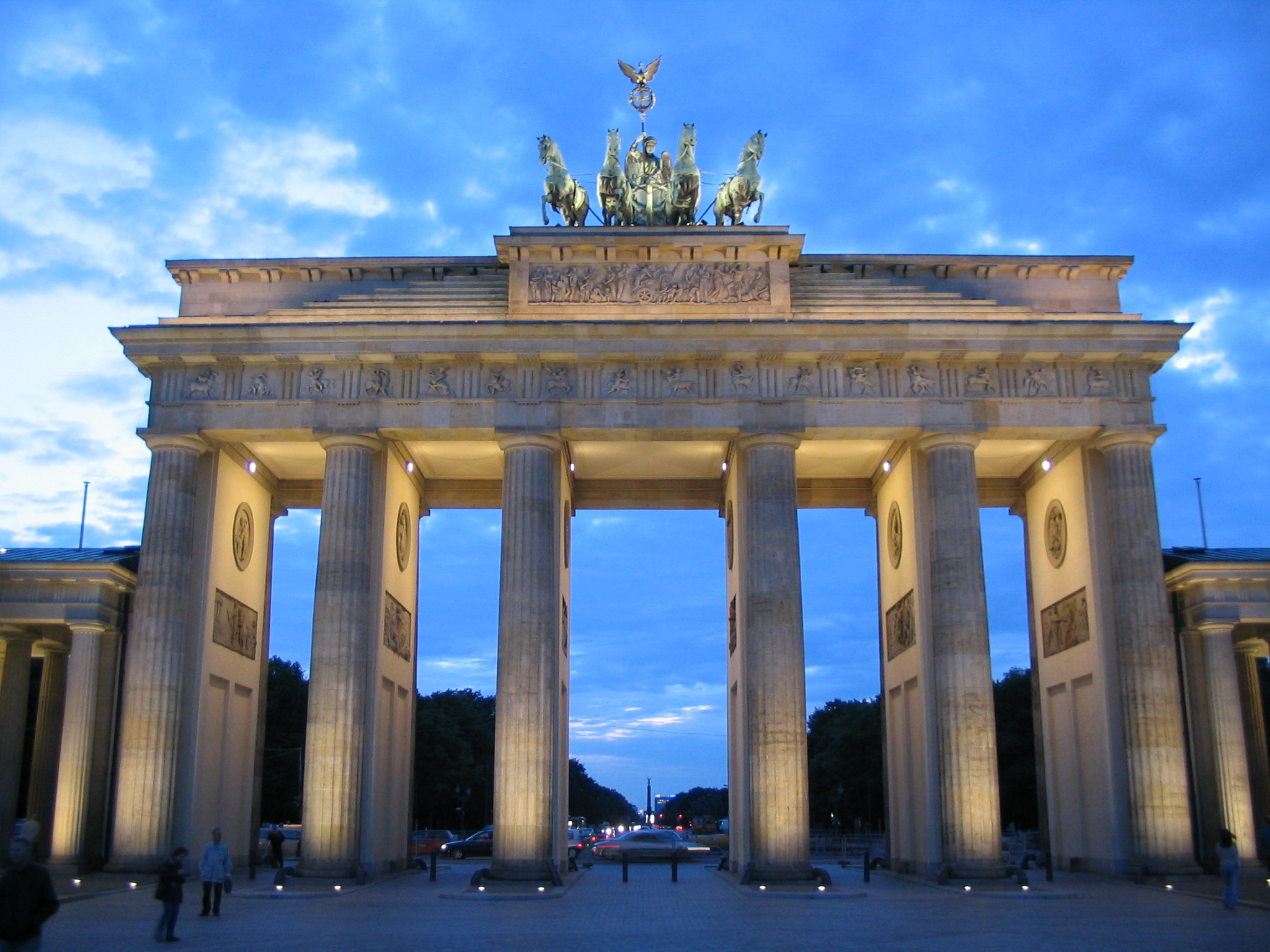 The Brandenburger Tor at the blue hour